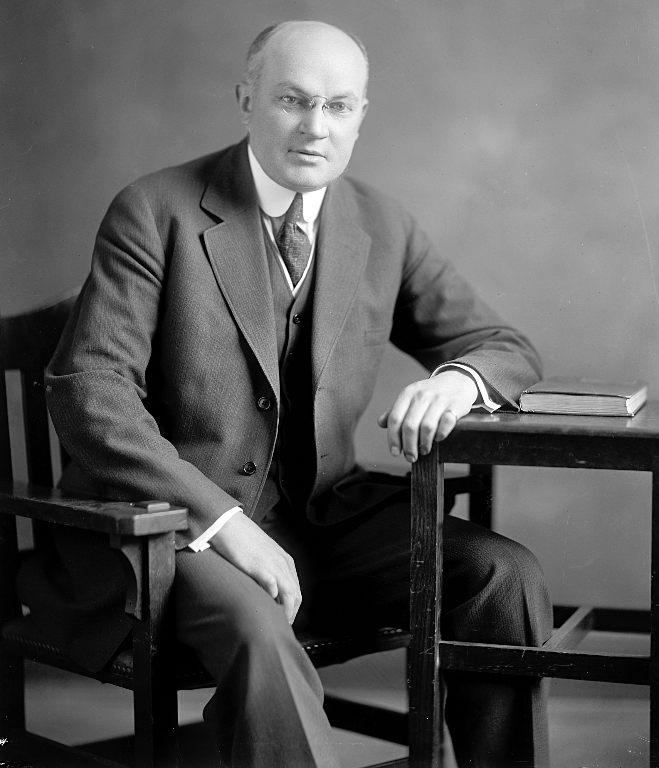 Edgar Raymond Kiess, US Representative from Pennsylvania